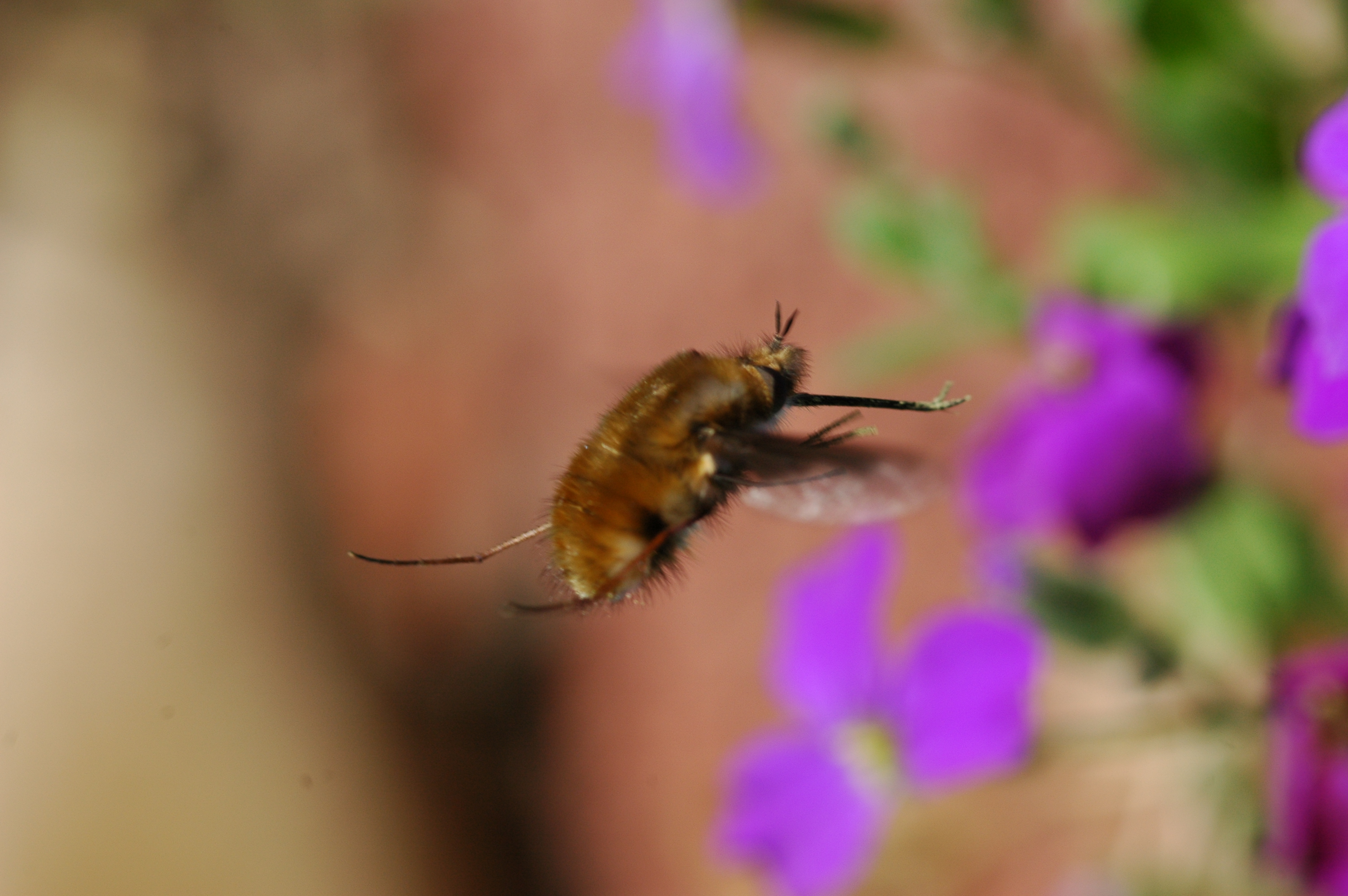 Large bee fly